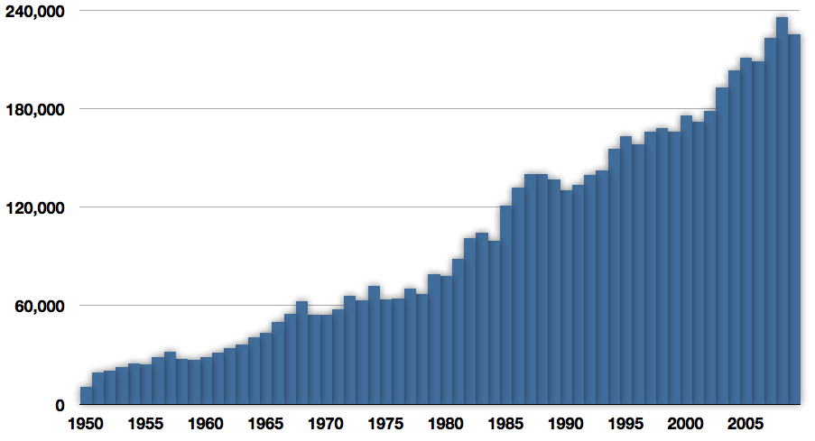 Scomberomorus commerson